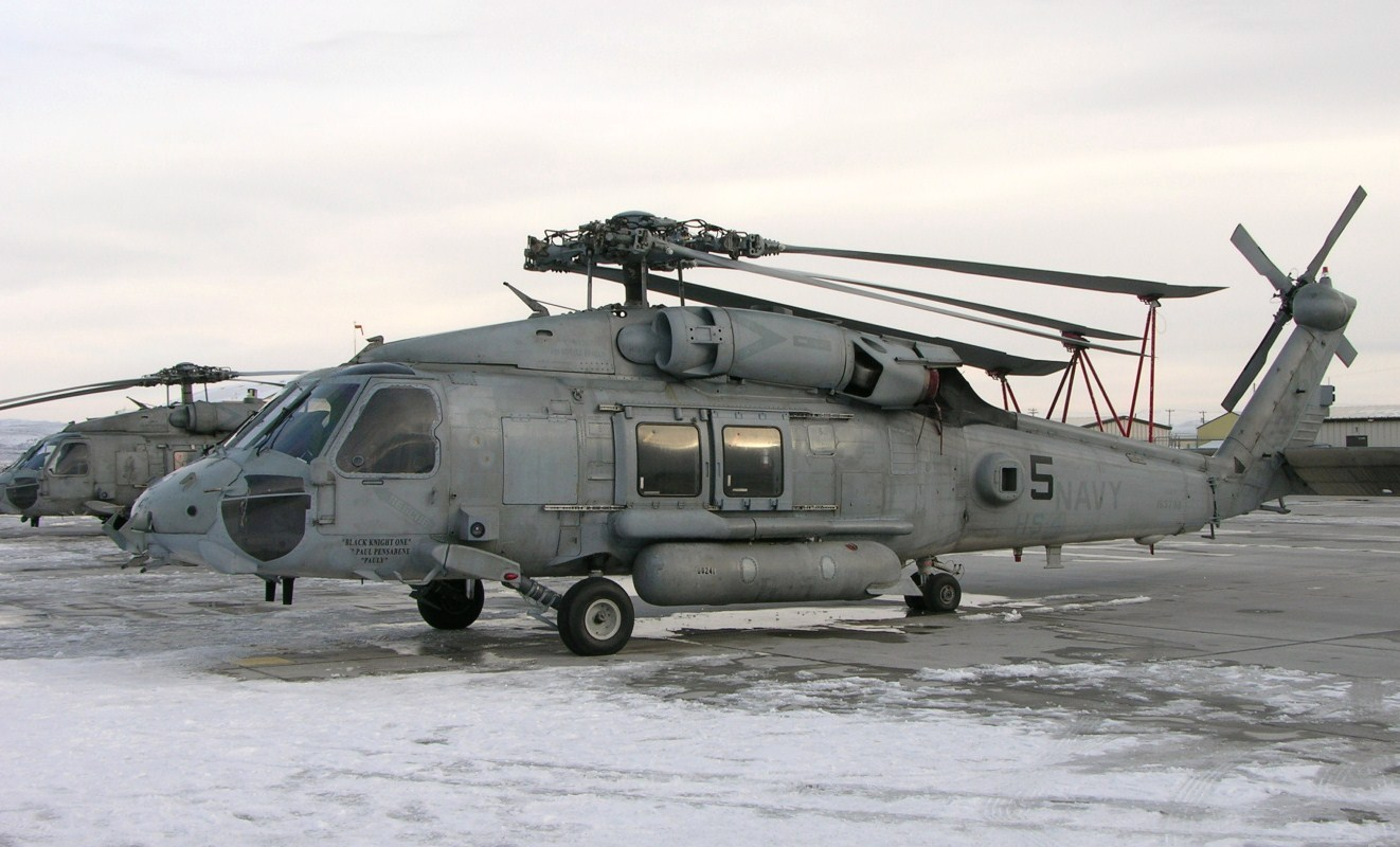 'Black Knight One' appears to be the name of this one